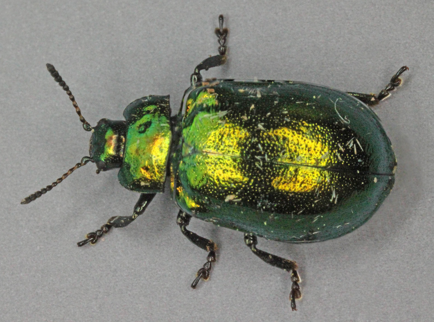 Chrysomela aenea, North Wales, June 2011